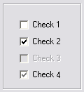 checkbox, check box, tickbox, tick box